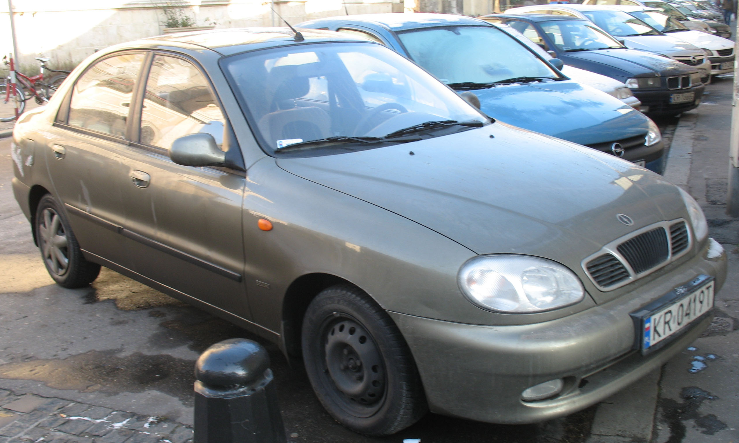 FSO Lanos car in Kraków, Poland.